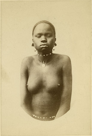 Dinka girl